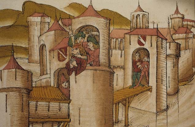 Murder of Hartmann II. of Neu-Kyburg by his brother, Eberhard II., castle Thun 1322. In the foreground the coat of arms of Neu-Kyburg, in the background the coat of arms of the city of Thun.